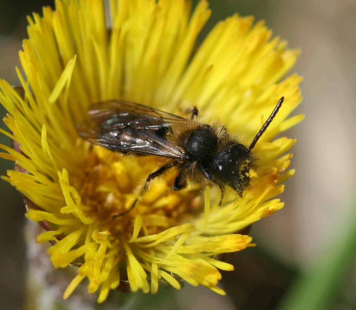 Ormiston, East Lothian, Scotland